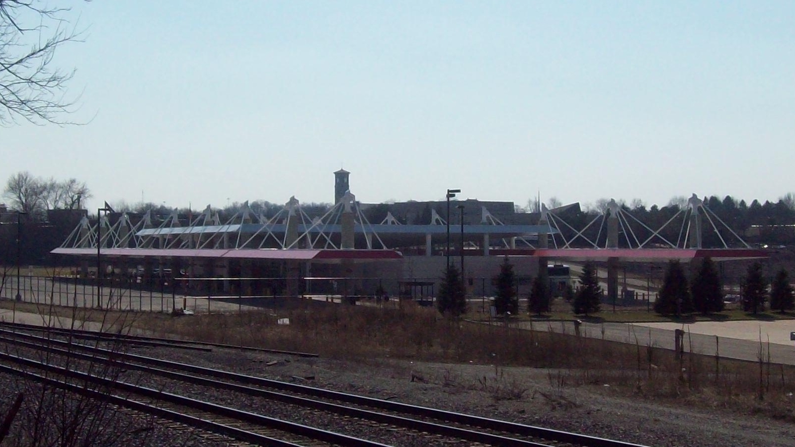 Akron, Ohio bus station.